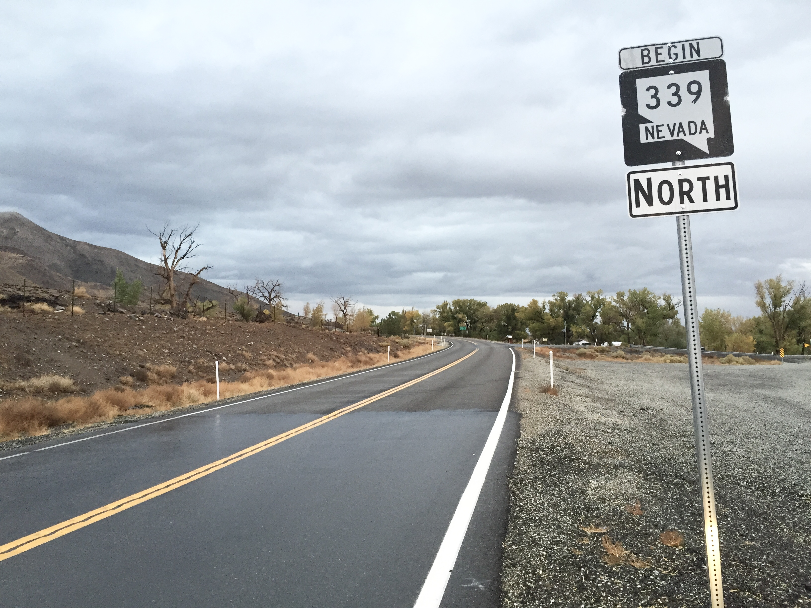 View north from the south end of Nevada State Route 339 (Nordyke Road) in Lyon County, Nevada